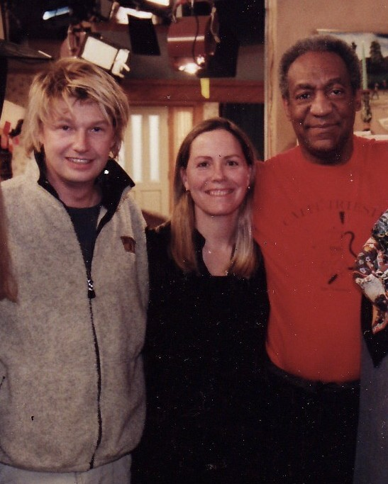 Stopping during a busy shoot for a public service announcement for the Partnership for a Drug Free America. Photographer and director Bobby Sheehan (left), PDFA advertising executive Ginna Marston (center), and comedian and actor Bill Cosby (right). Note: date of photo is approximate.